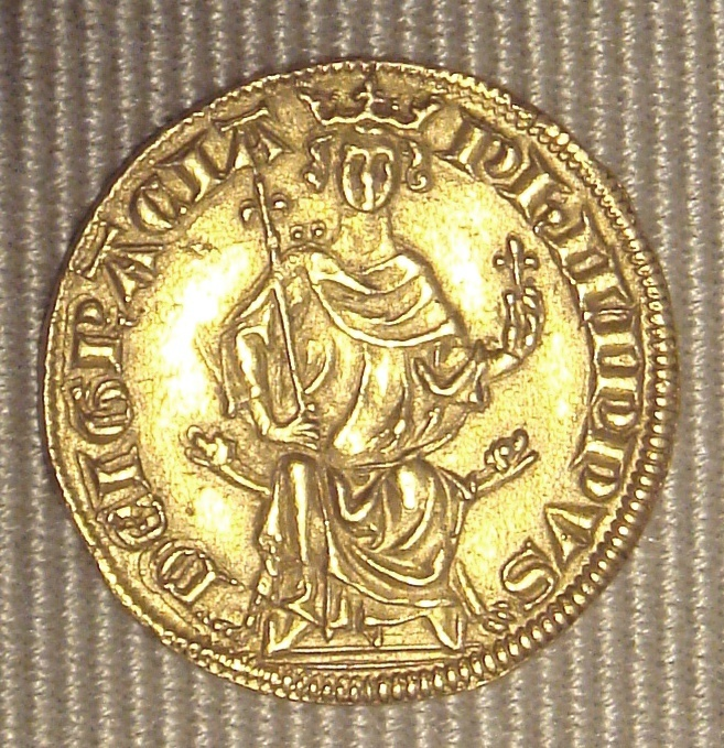 Coin of Philippe IV (Le Bel)